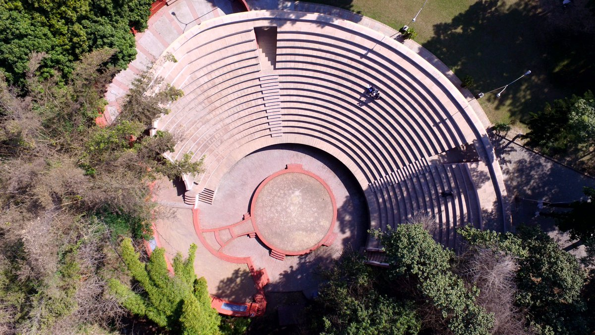 Aerial view of the amphitheatre inside the all-boys' boarding school, The Doon School in Dehradun, India.